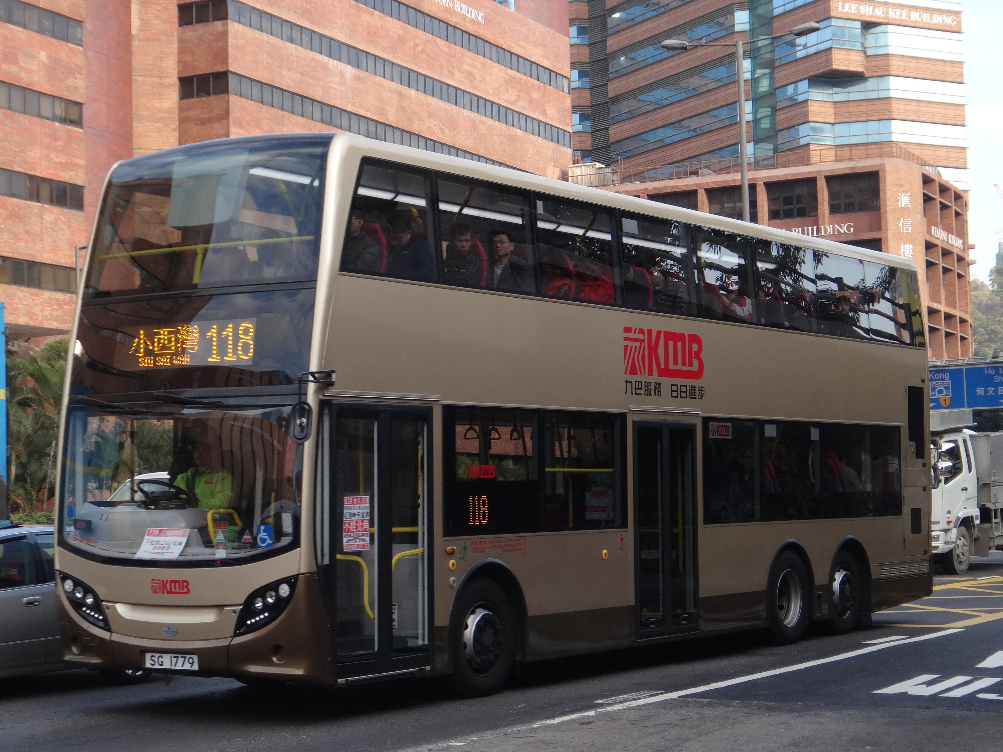 An Alexander-Dennis Enviro500 MMC operated by Kowloon Motor Bus at Cross Harbour Tunnel Toll Booth, Hung Hom, Hong Kong.